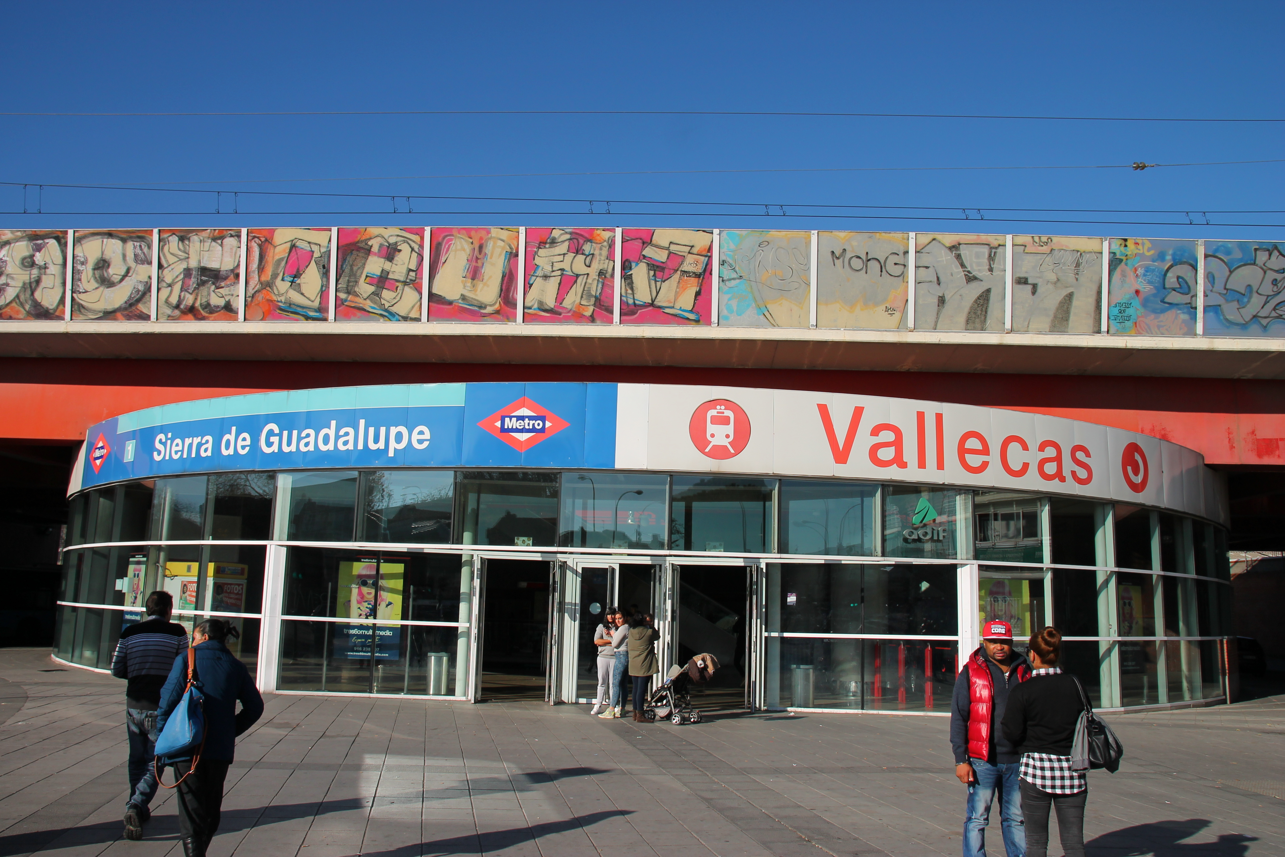 Estación de Sierra de Guadalupe